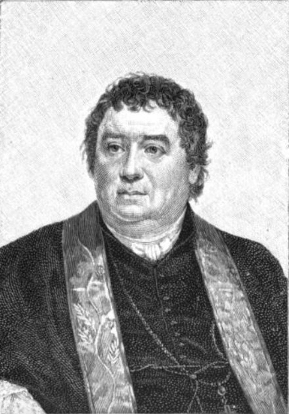 Portrait of Bishop Benedict Joseph Fenwick